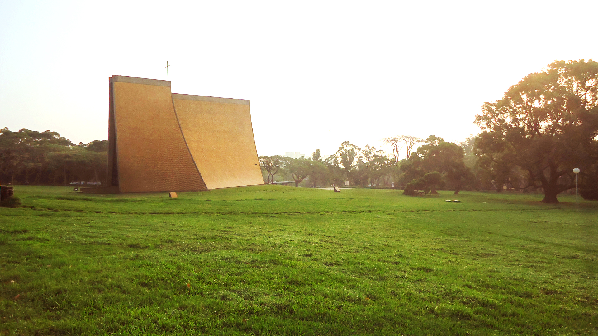 Tunghai University, Taichung, Taiwan.